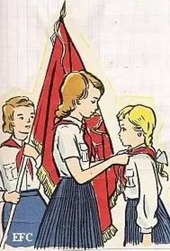 A cut-out from a postcard in the 1930s showing the illustration of the recruitment of a girl pioneer.